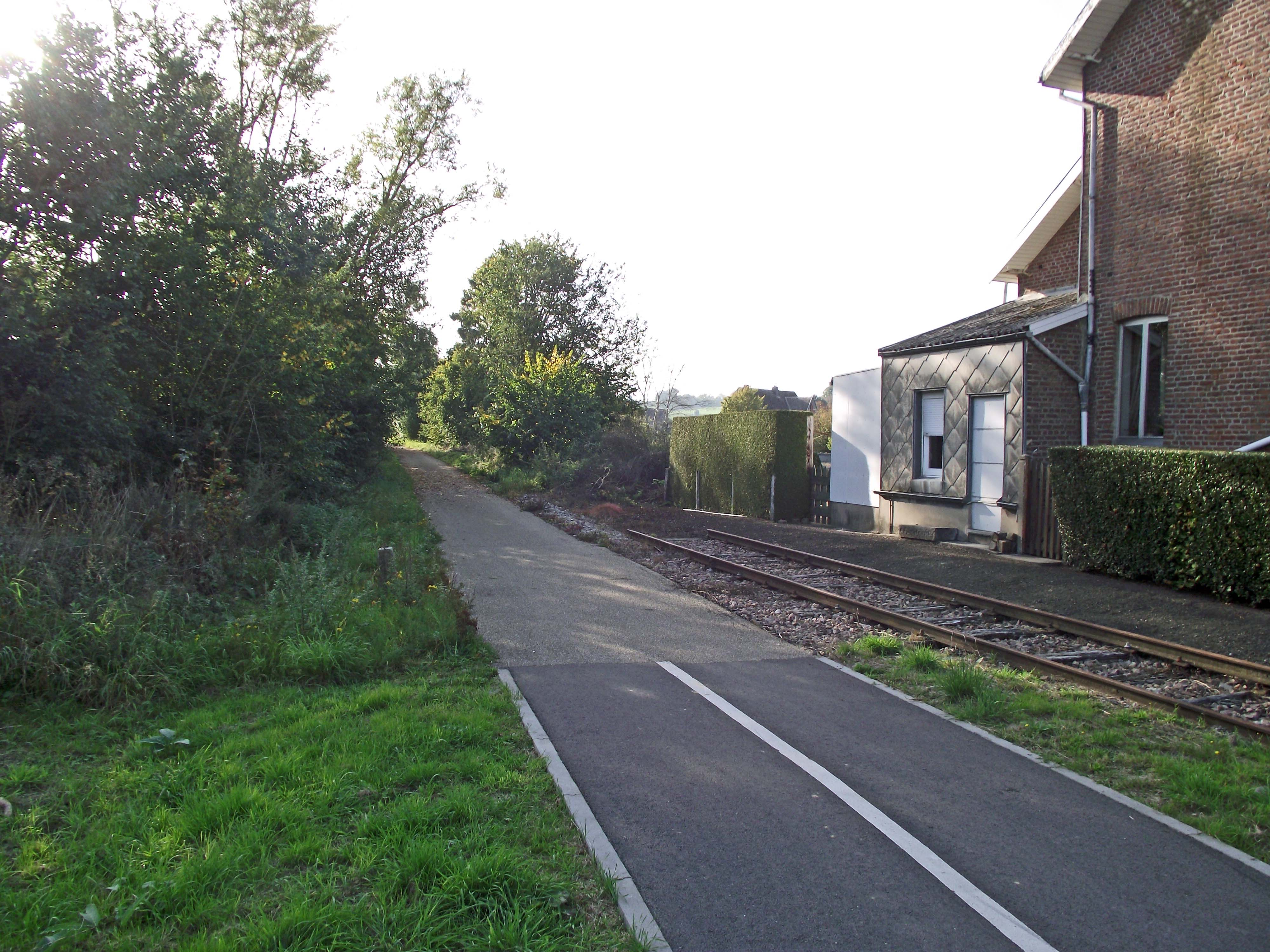 Old SNCB railway line 126 converted into a bikeway (Ravel). Here at Havelage station. A piece of track is left in place.